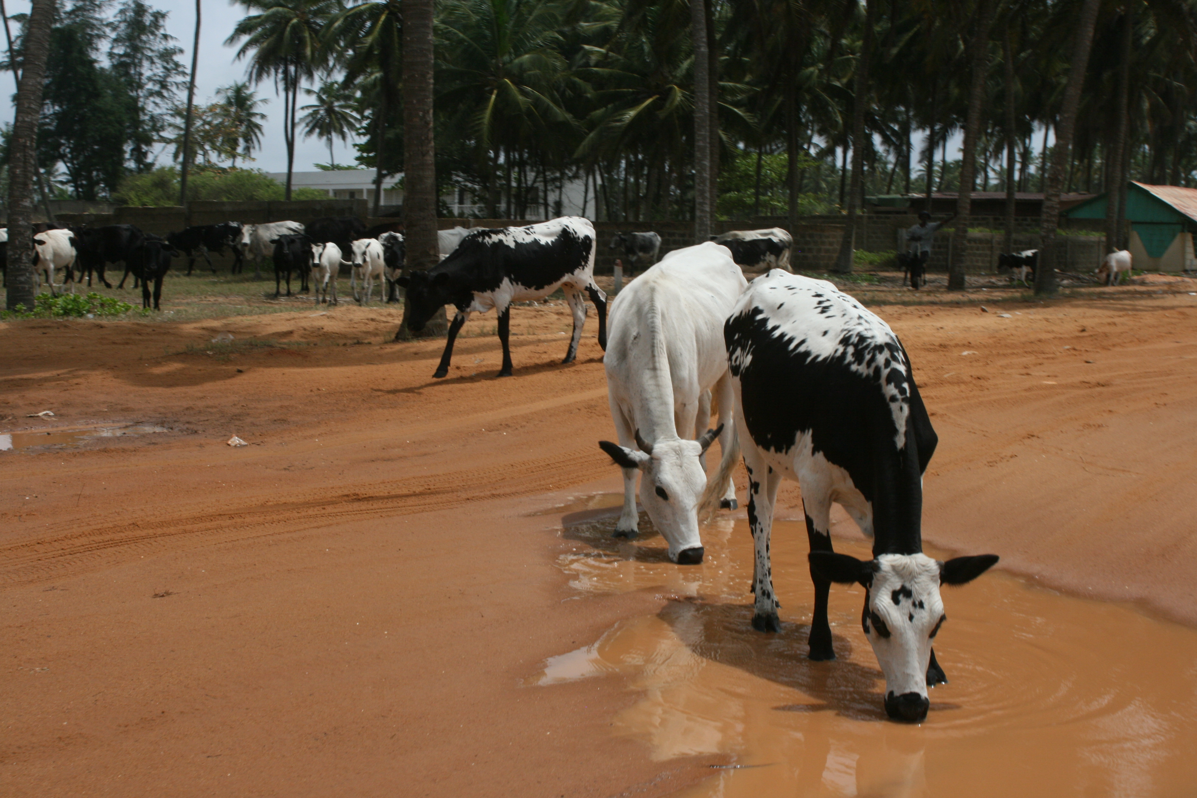 Kühe in Cotonou, Benin